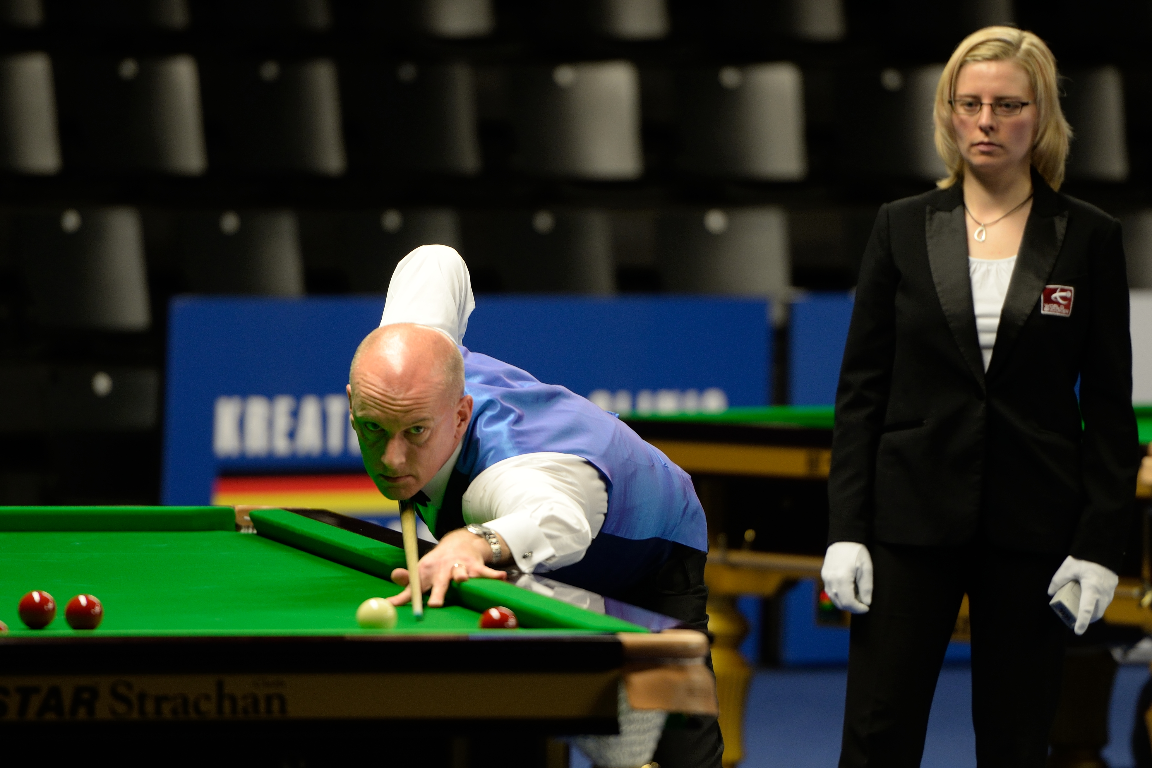 Picture taken in Berlin during the Snooker German Masters in 2015. Peter Ebdon, Maike Kesseler.